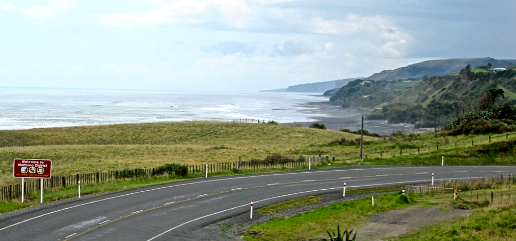 looking north up coast